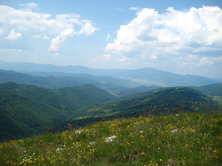 Golemi Vrah Peak in Erulska Mountain. Altitude: 1480.5 m